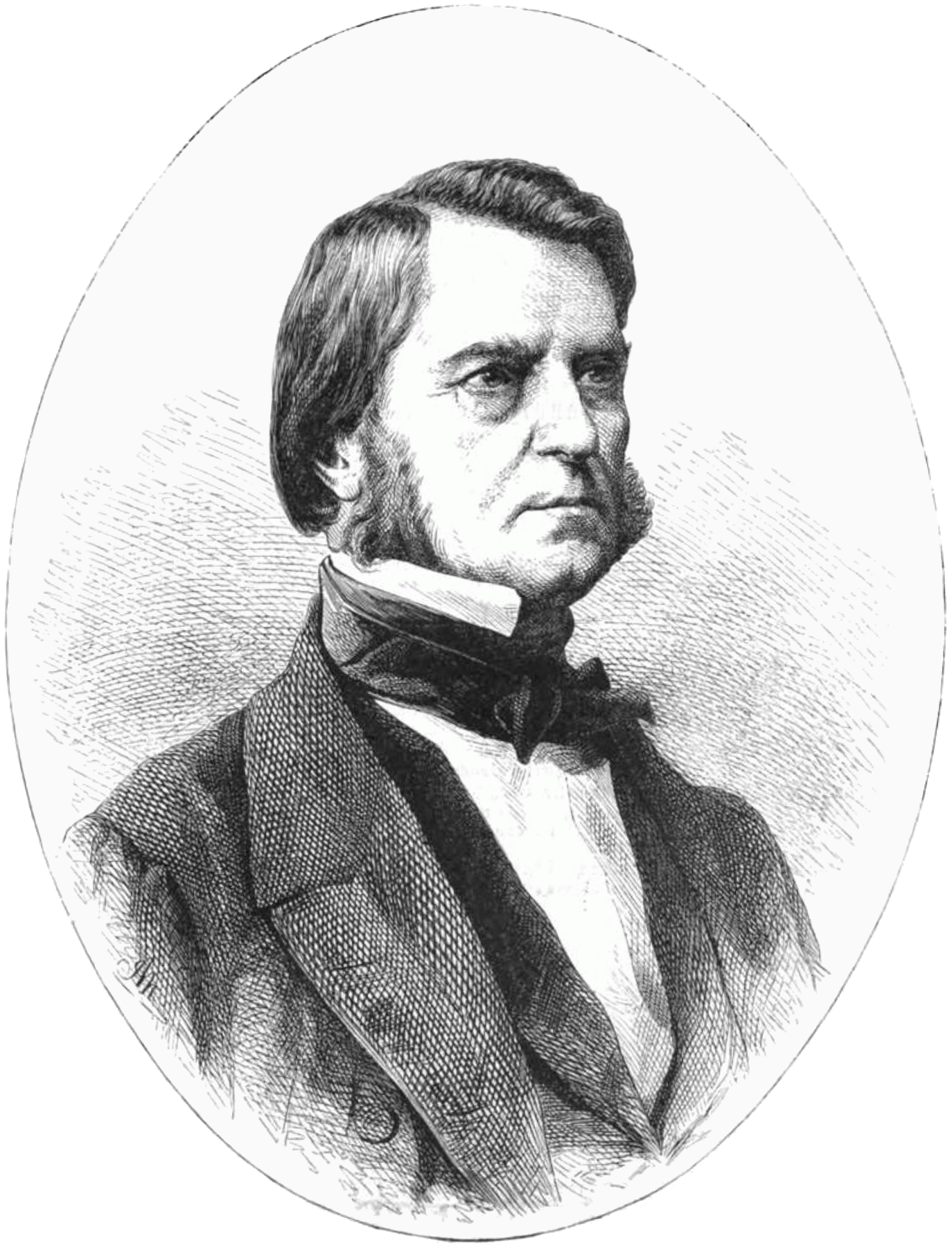 Georg Ernst Reimer (1804–1885) German bookseller, publisher and politician